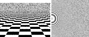 Antialiasing using 4 jittered samples per pixel